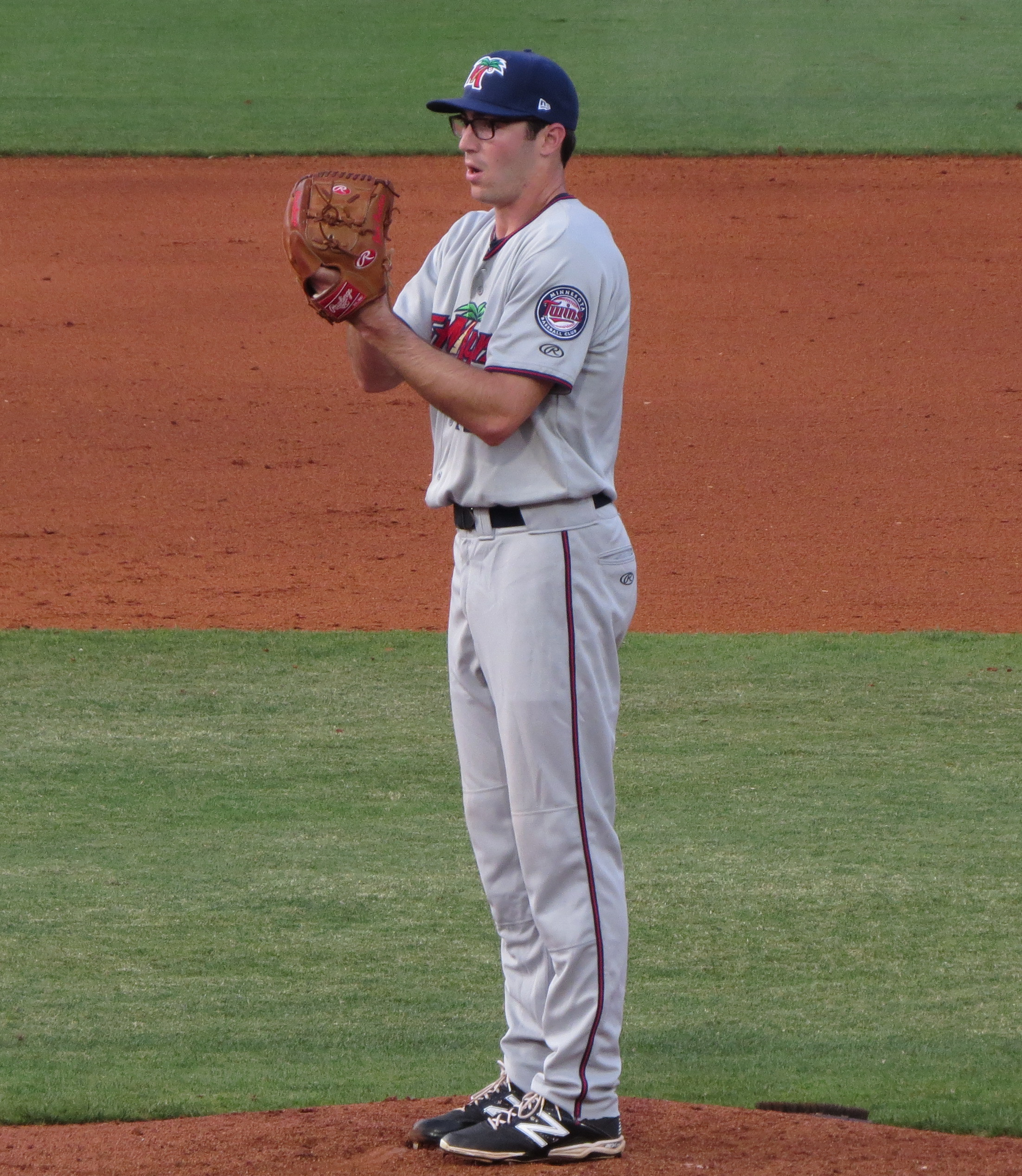 Curtiss on the mound